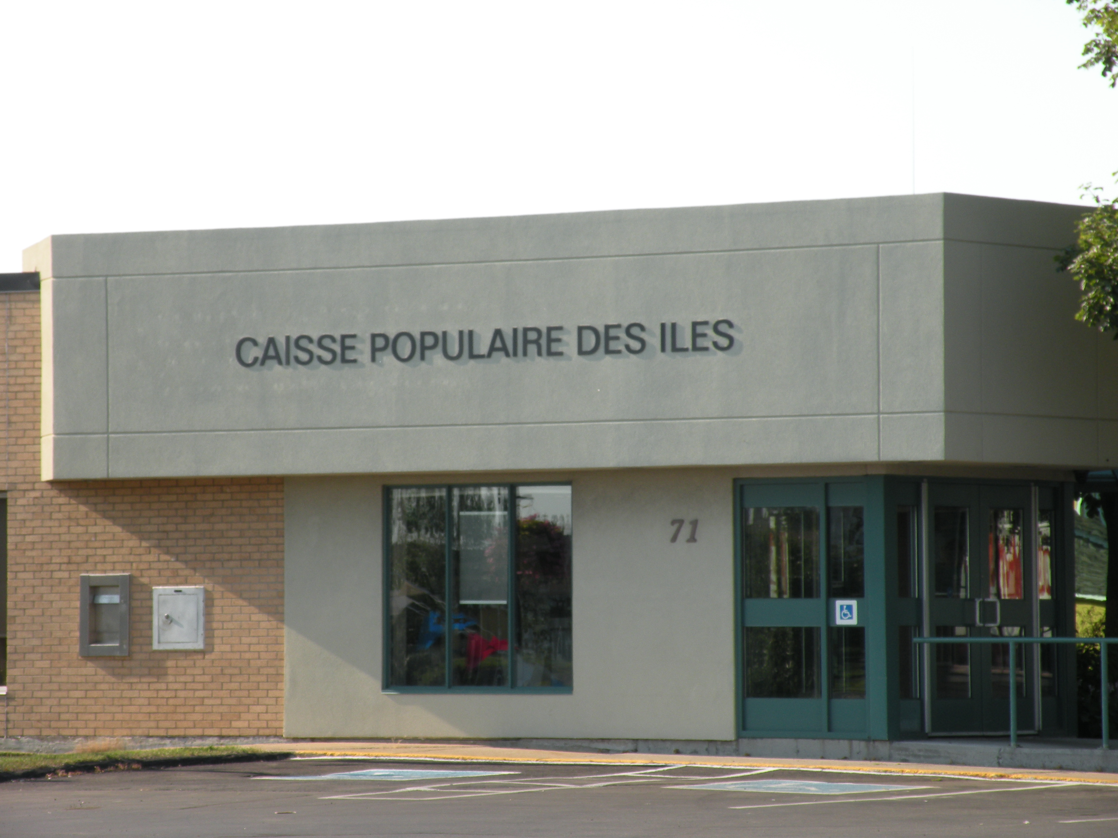 Credit union in Lamèque, New Brunswick, Canada.